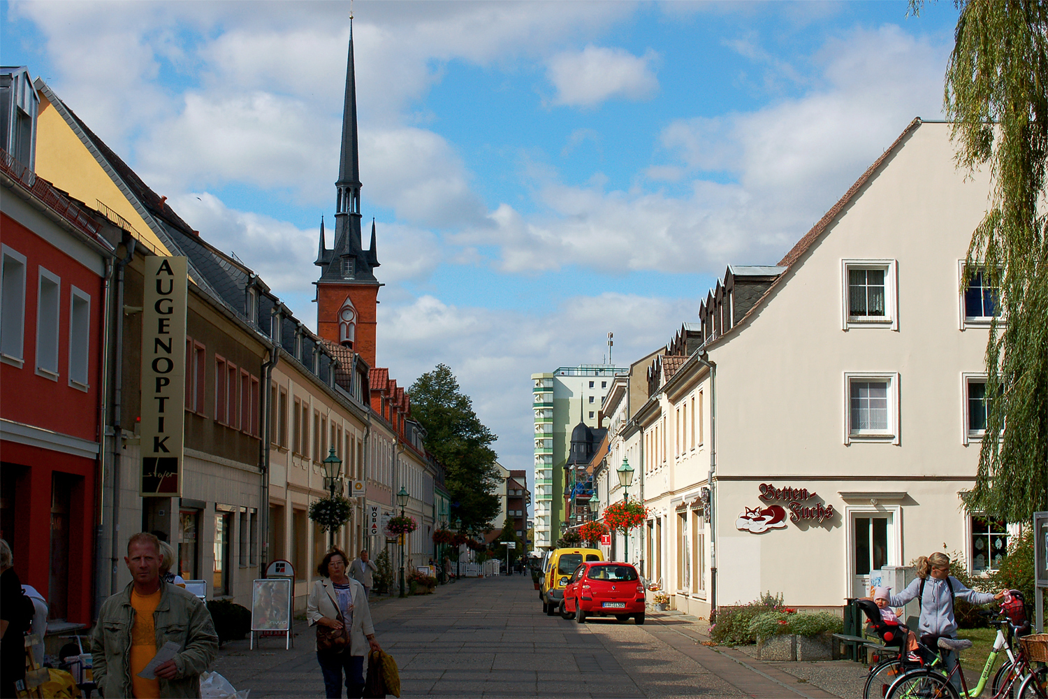 see title